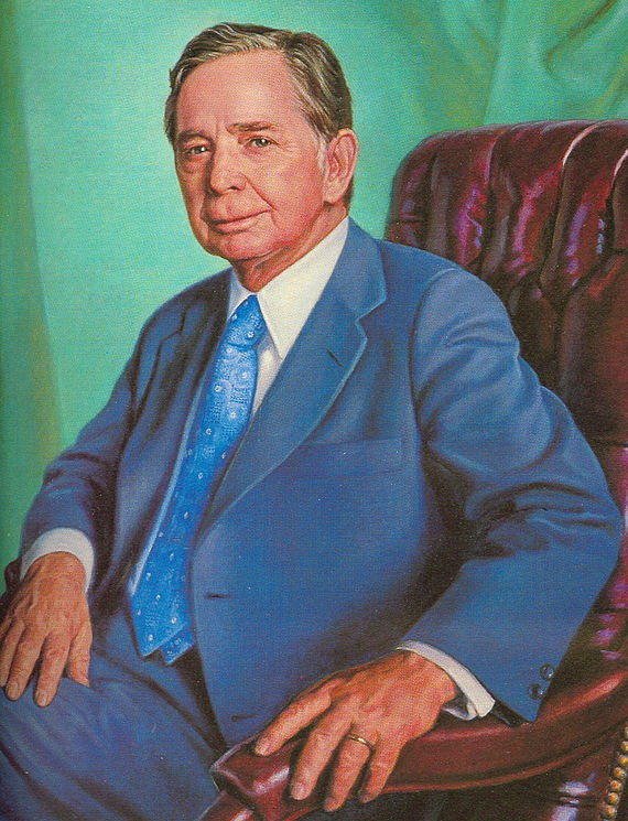 Cropped portrait of Carl Albert, Speaker of the U.S. House of Representatives.